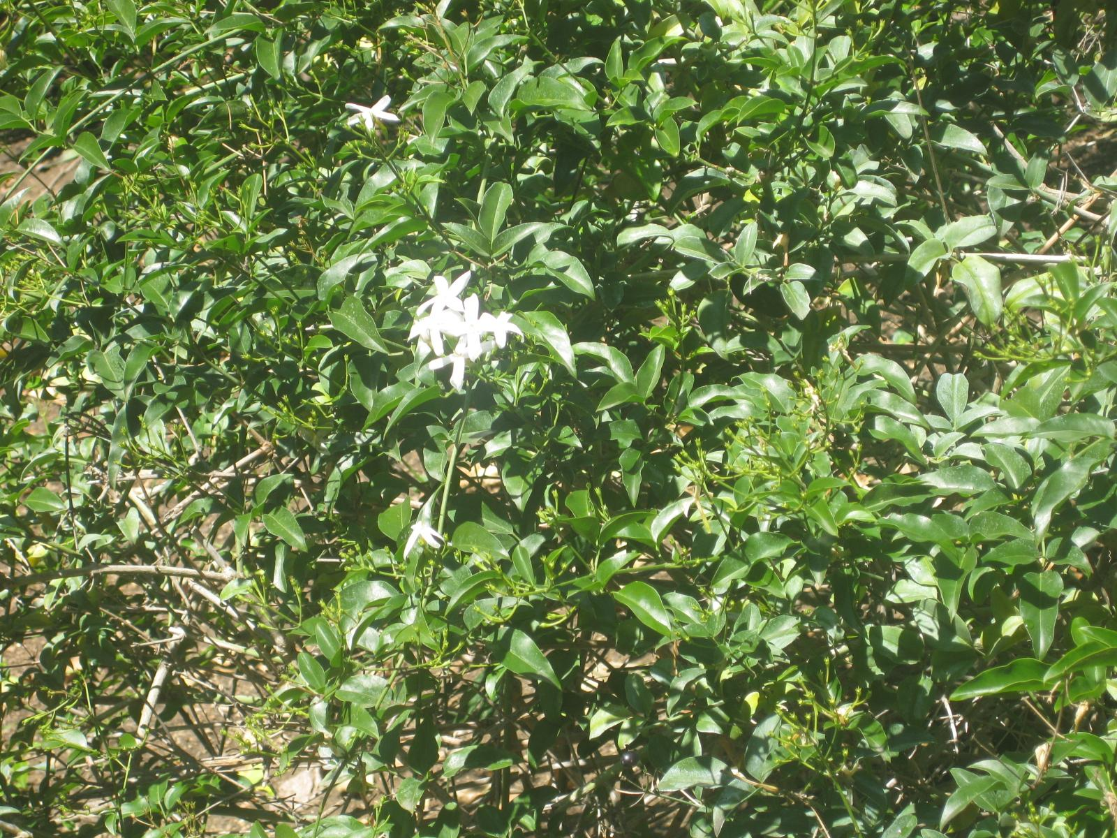 Photographed at Huntington Gardens (Los Angeles) in March